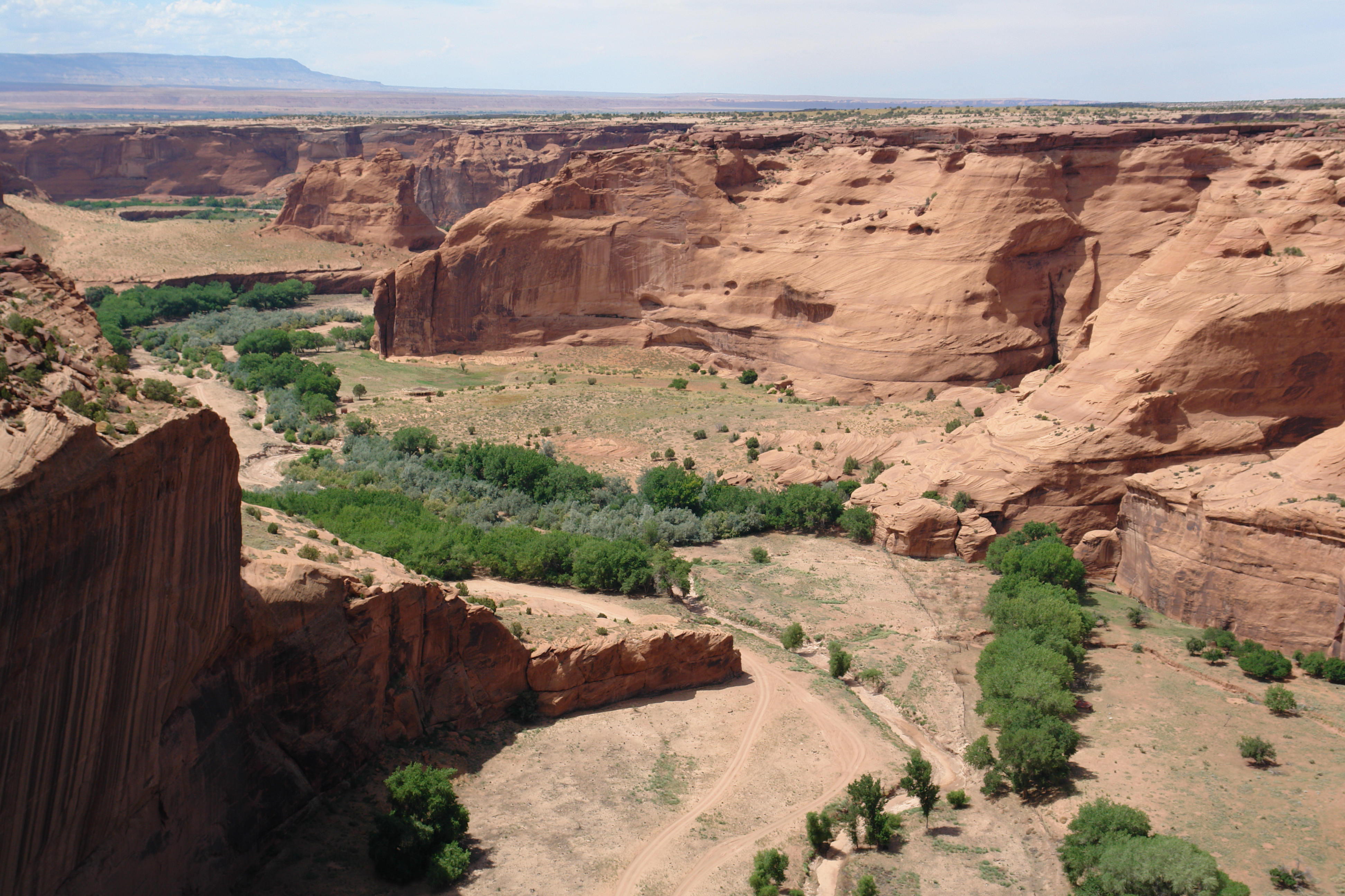 Canyon de Chelly National Monument, Arizona, USA. View from White House Overlook to northeast, (headwaters of Canyon de Chelly, Chuska Mountains, on horizon).